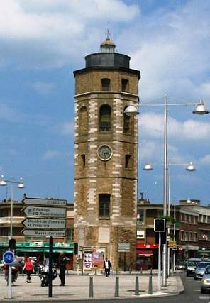 Leughenaer Tower at Dunkerque.